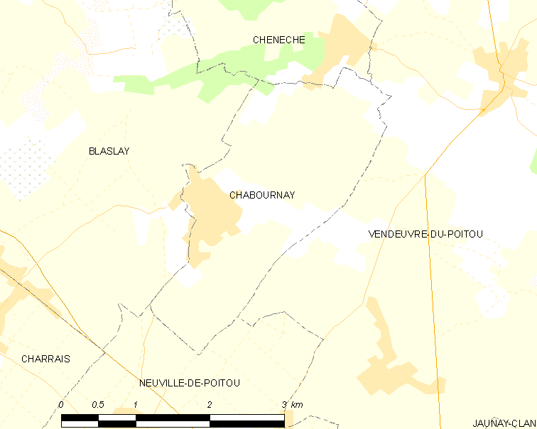 Map of French municipality Chabournay